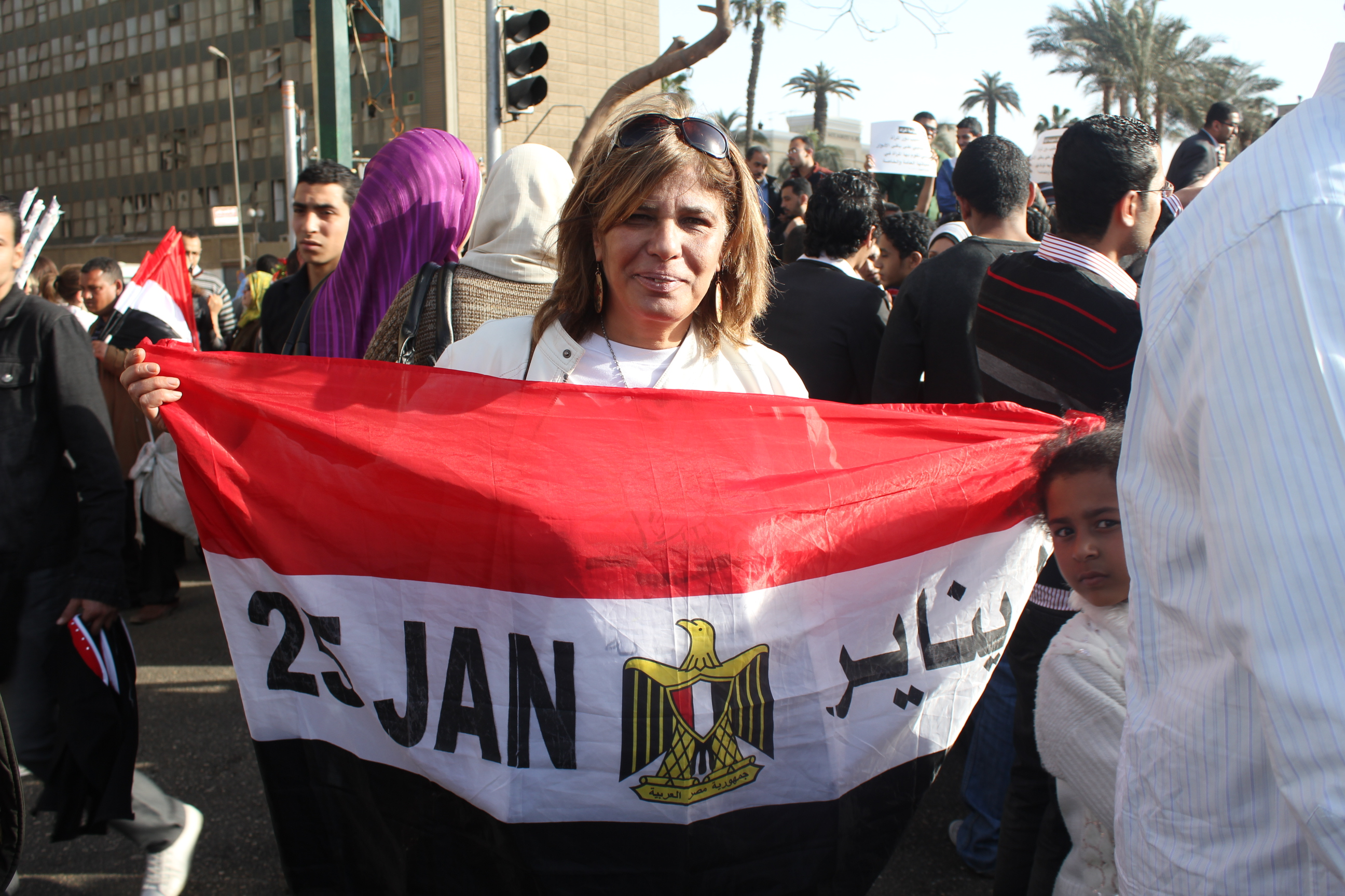 International women day in Egypt